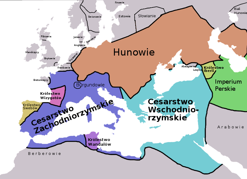 Europe in 450, Polish names